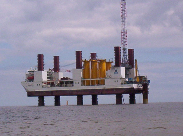 TIV Resolution raised out of the sea to install wind turbines. Lynn and Inner Dowsing Wind Farm